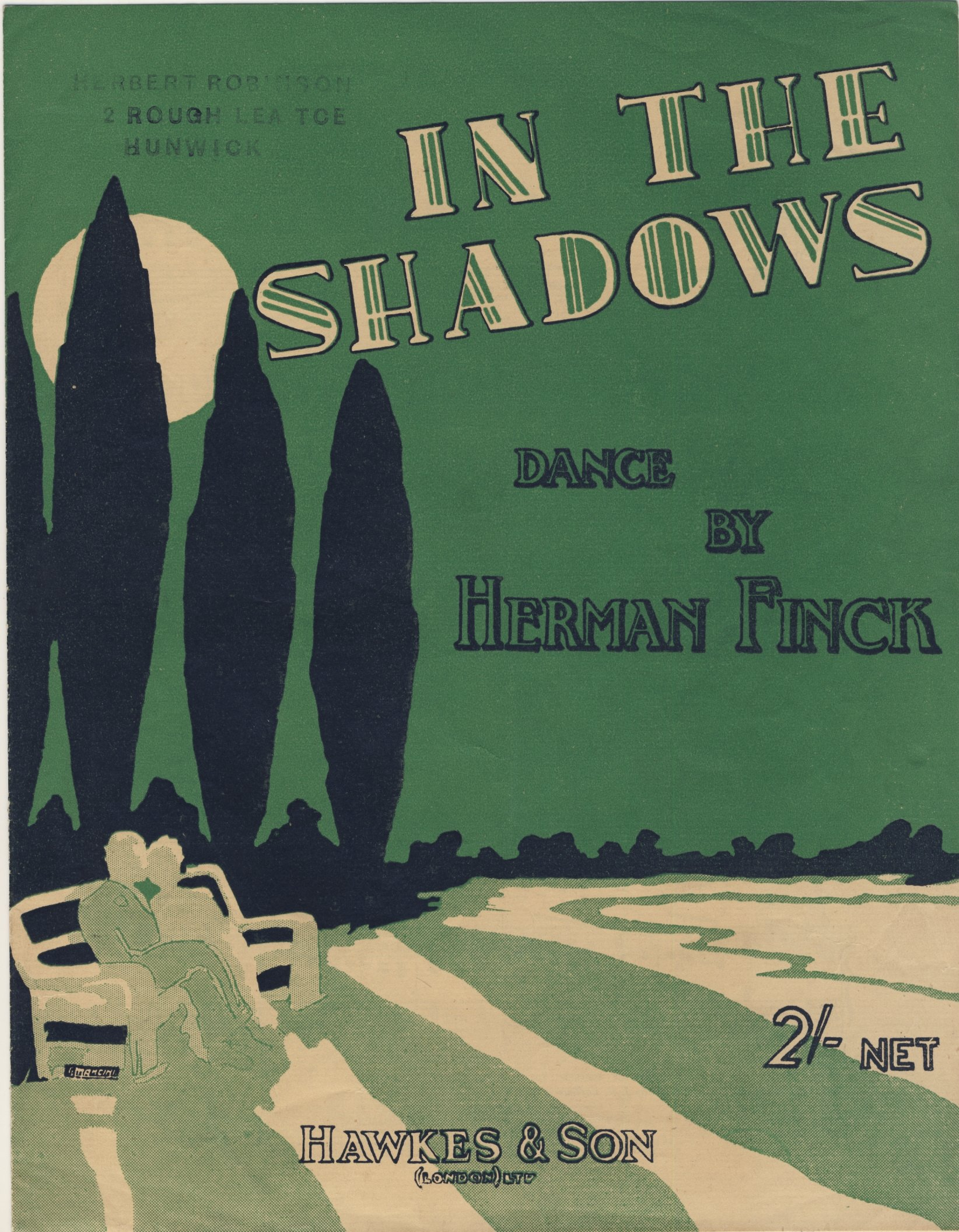 Cover of the sheet music for 'In the Shadows', by Herman Fink (1910)